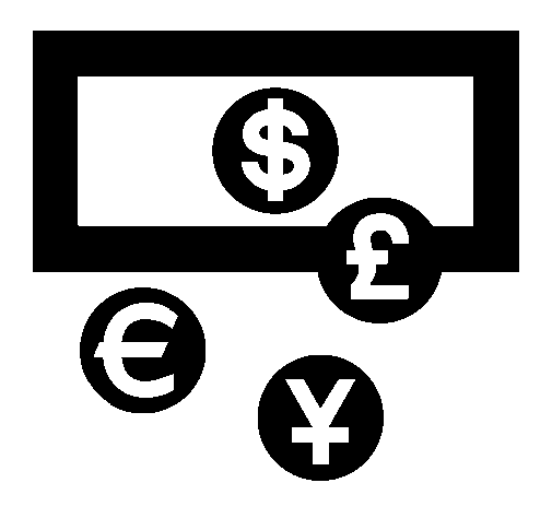 Currencies exchange logo